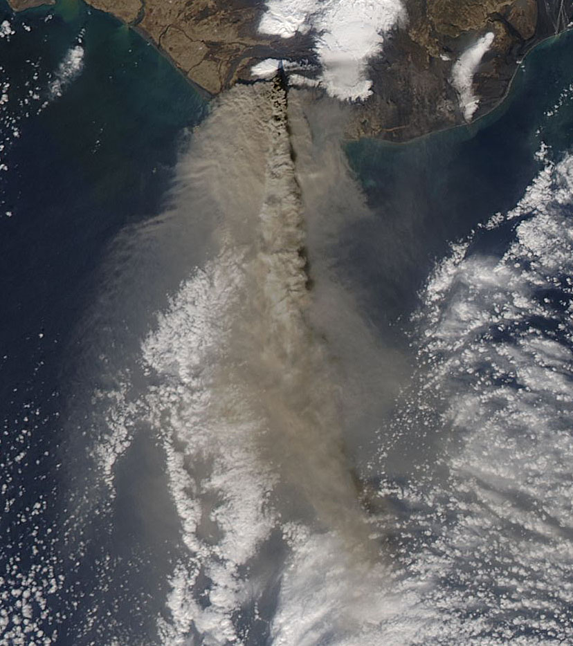 Eruption of Eyjafjallajökull Volcano, Iceland.